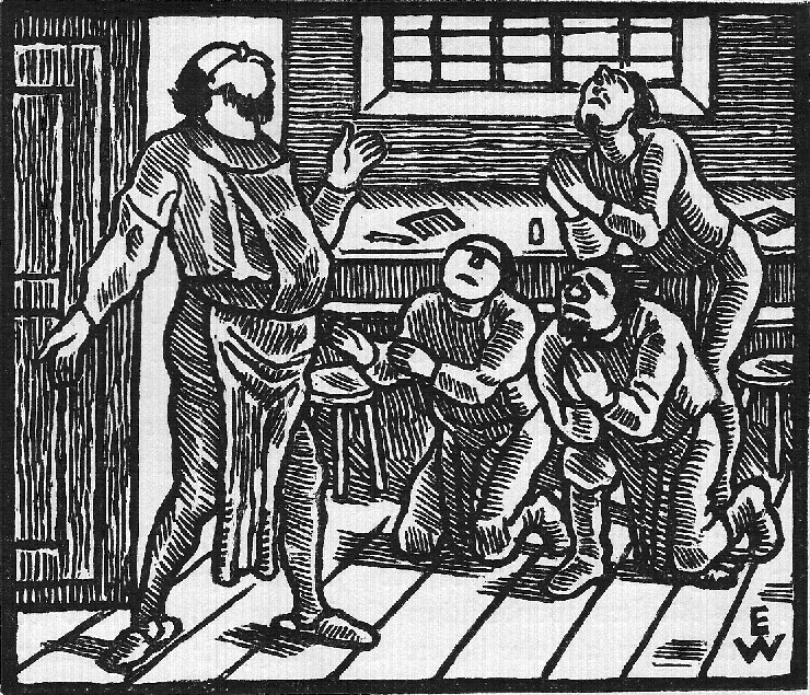 Beseeching their master not to dismiss them